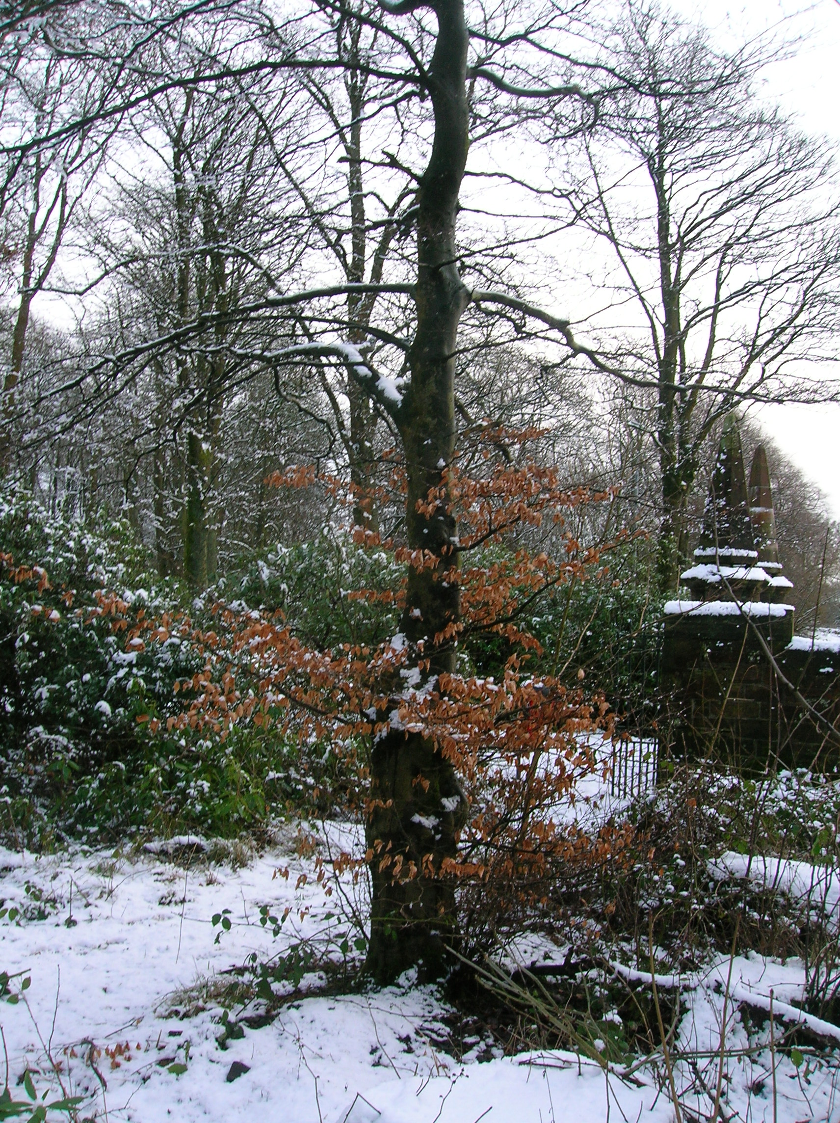 A Beech tree (Fagus sylvatica) showing partial marcescence. Spier's school grounds. Beith. North Ayrahire. Scotland.